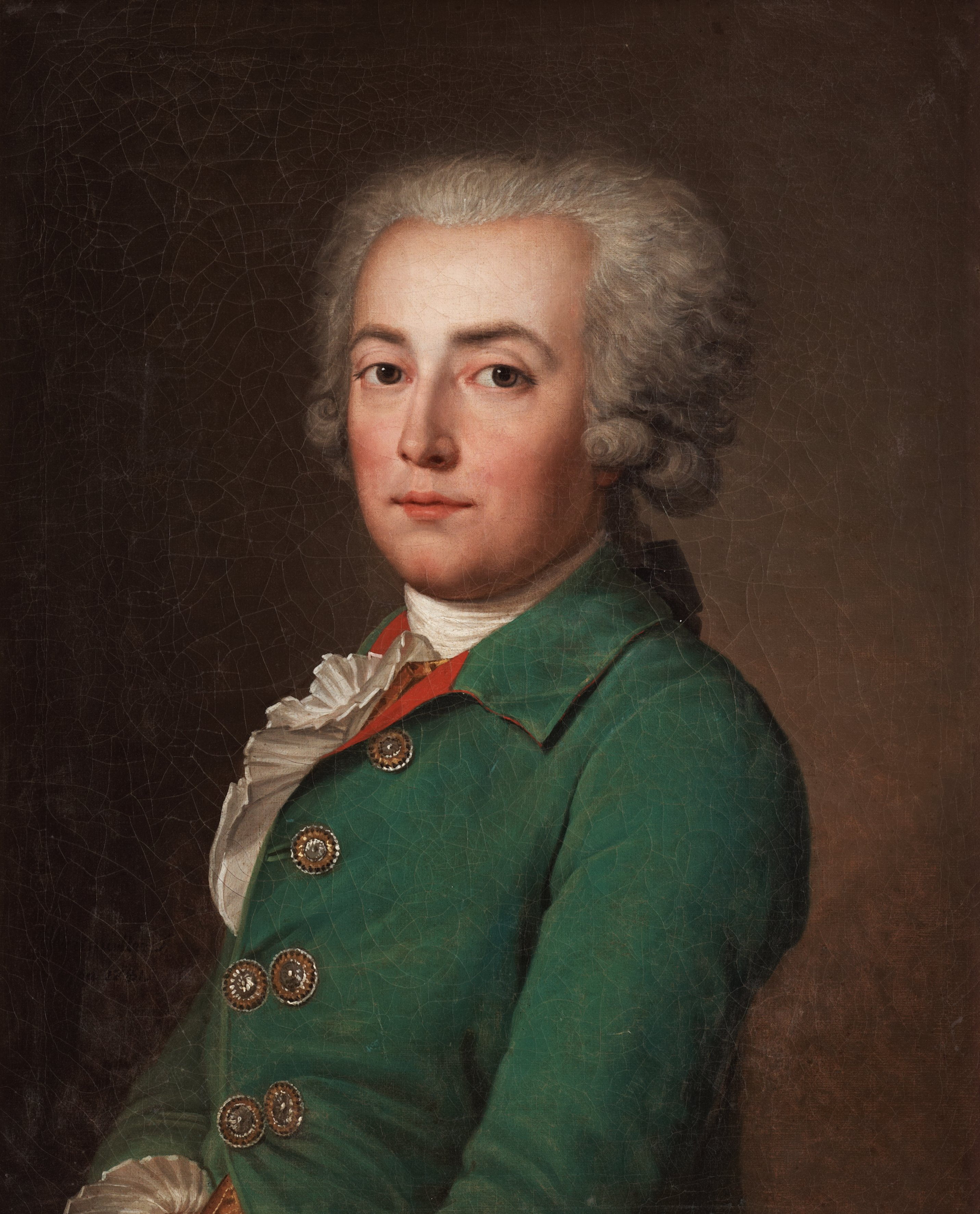 Portrait of Stanislas de Clermont-Tonnerre (1757-1792), painted in Lyon, France, in 1781.